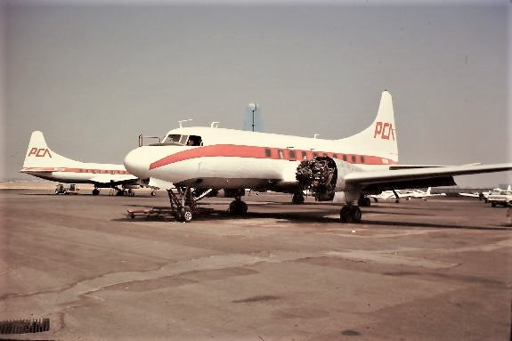 Manufacturer: Convair Designation: CV-240 Airline: Pacific Coast Airlines Serial Number: N91237